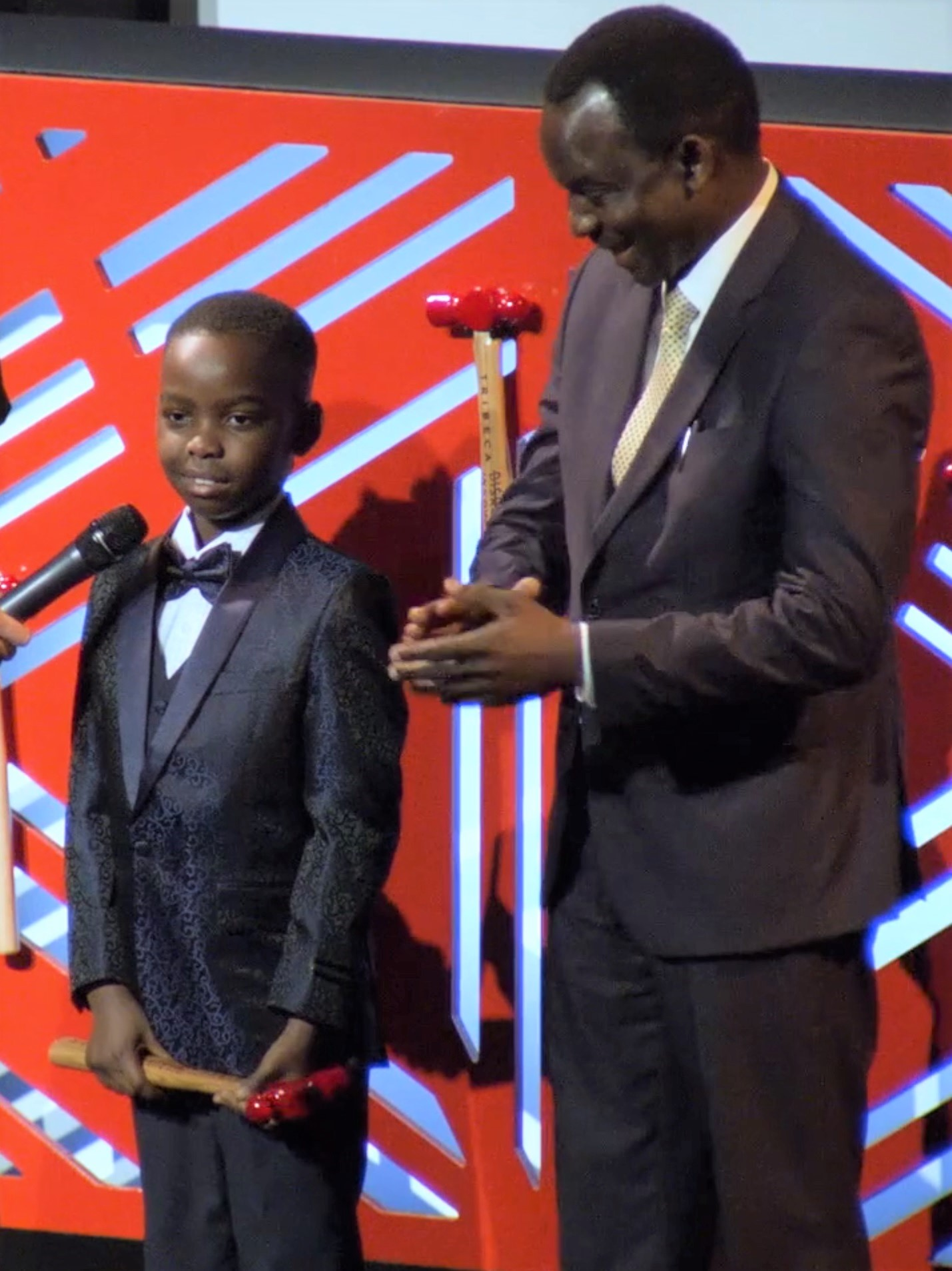 Young Nigerian American chess player Tanitoluwa “Tani” Adewumi (left), receiving Tribeca Disruptive Innovation award as his father applauds.